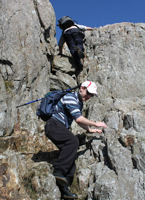 Scrambling on Crib Goch